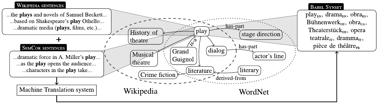 This picture shows the structure of the BabelNet multilingual semantic network. BabelNet is an "encyclopedic dictionary" obtained from the automatic integration of Wordnet and Wikipedia